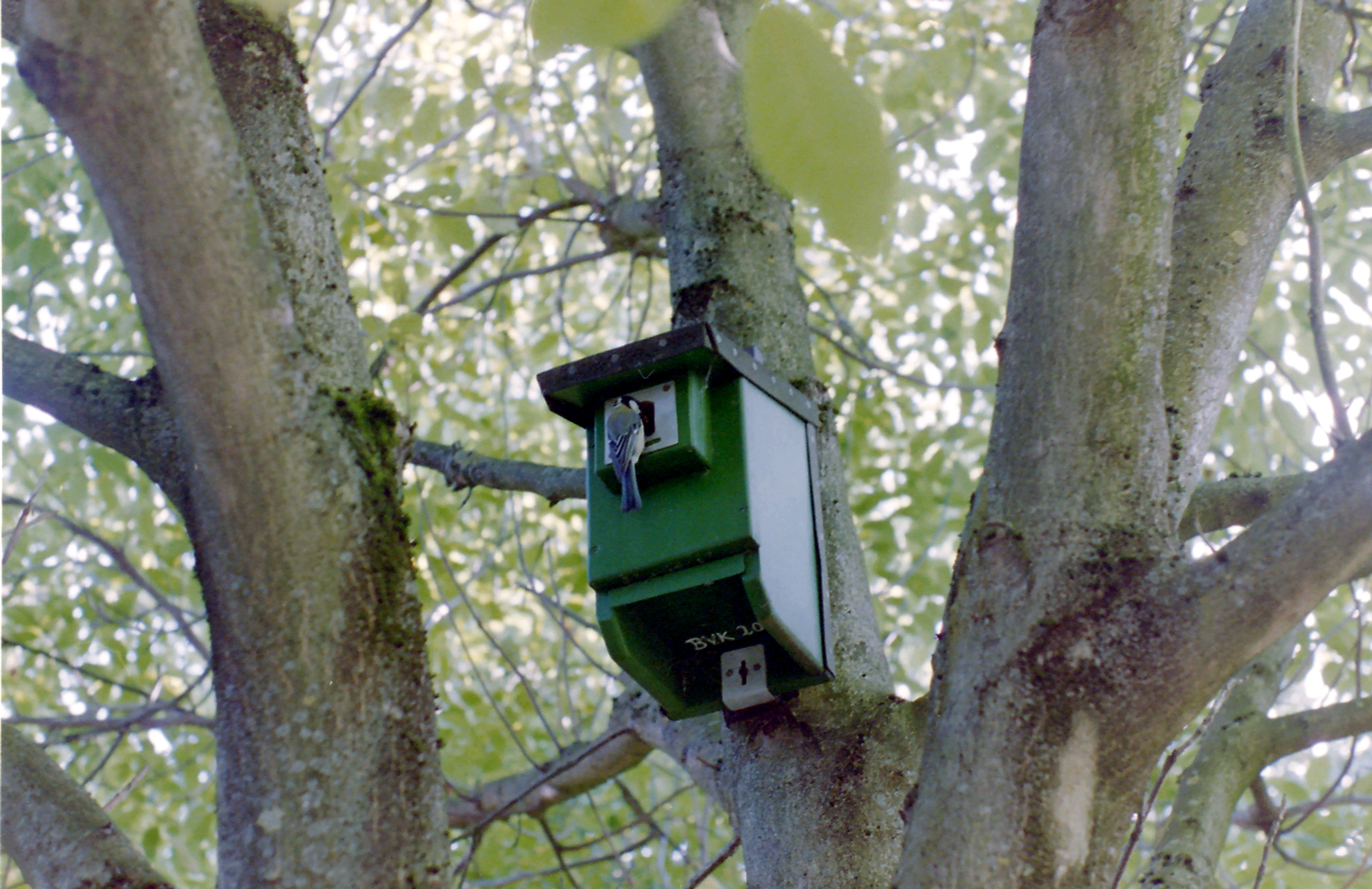 Nest box with great titmouse, seen in Altenbeken, Germany